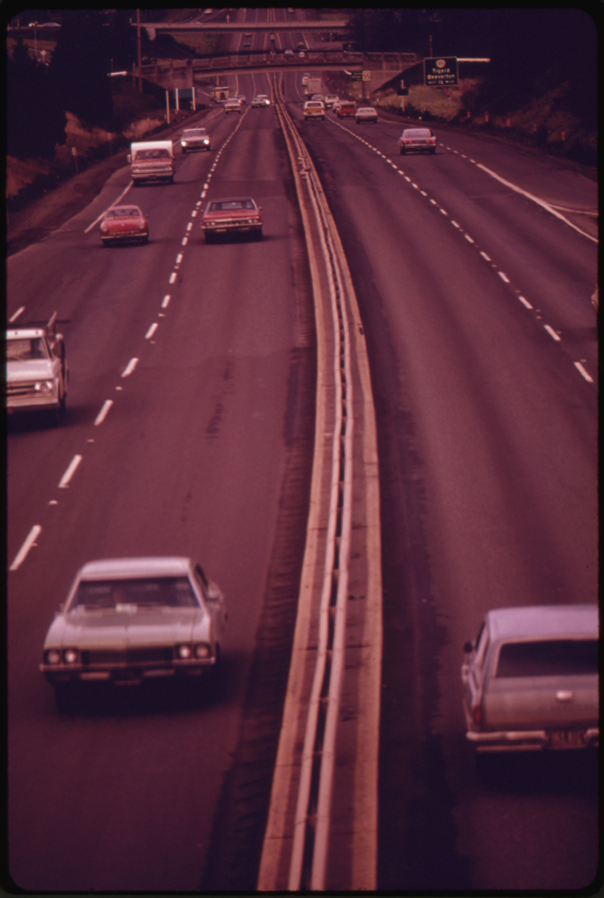 Original Caption: Traffic on Interstate #5 Was Less Than Normal on the First Sunday Afternoon of the Nationwide Ban on Gasoline Sales in December 1973 12/1973 U.S. National Archives’ Local Identifier: 412-DA-12985 Photographer: Falconer, David Subjects: Wilsonville (Clackamas county, Oregon, United States) inhabited place Environmental Protection Agency Project DOCUMERICA Persistent URL: Repository: Still Picture Records Section, Special Media Archives Services Division (NWCS-S), National Archives at College Park, 8601 Adelphi Road, College Park, MD, 20740-6001. For information about ordering reproductions of photographs held by the Still Picture Unit, visit: Reproductions may be ordered via an independent vendor. NARA maintains a list of vendors at Access Restrictions: Unrestricted Use Restrictions: Unrestricted